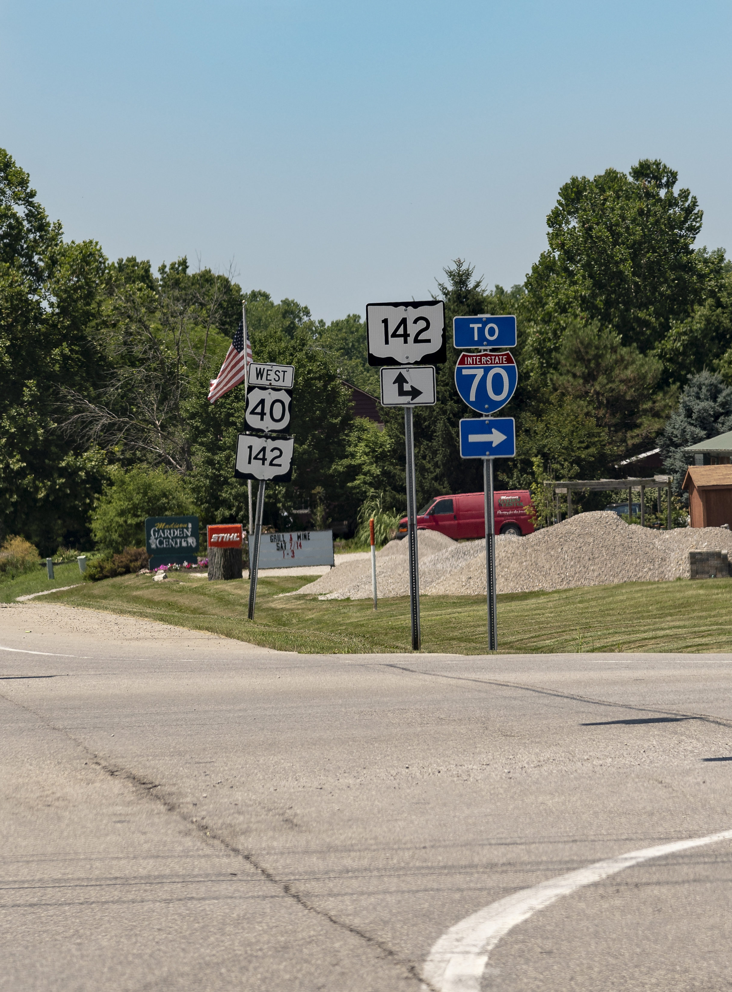 Ohio State Route 142 and U.S. Route 40 intersection in West Jefferson, Ohio on a hot July day.